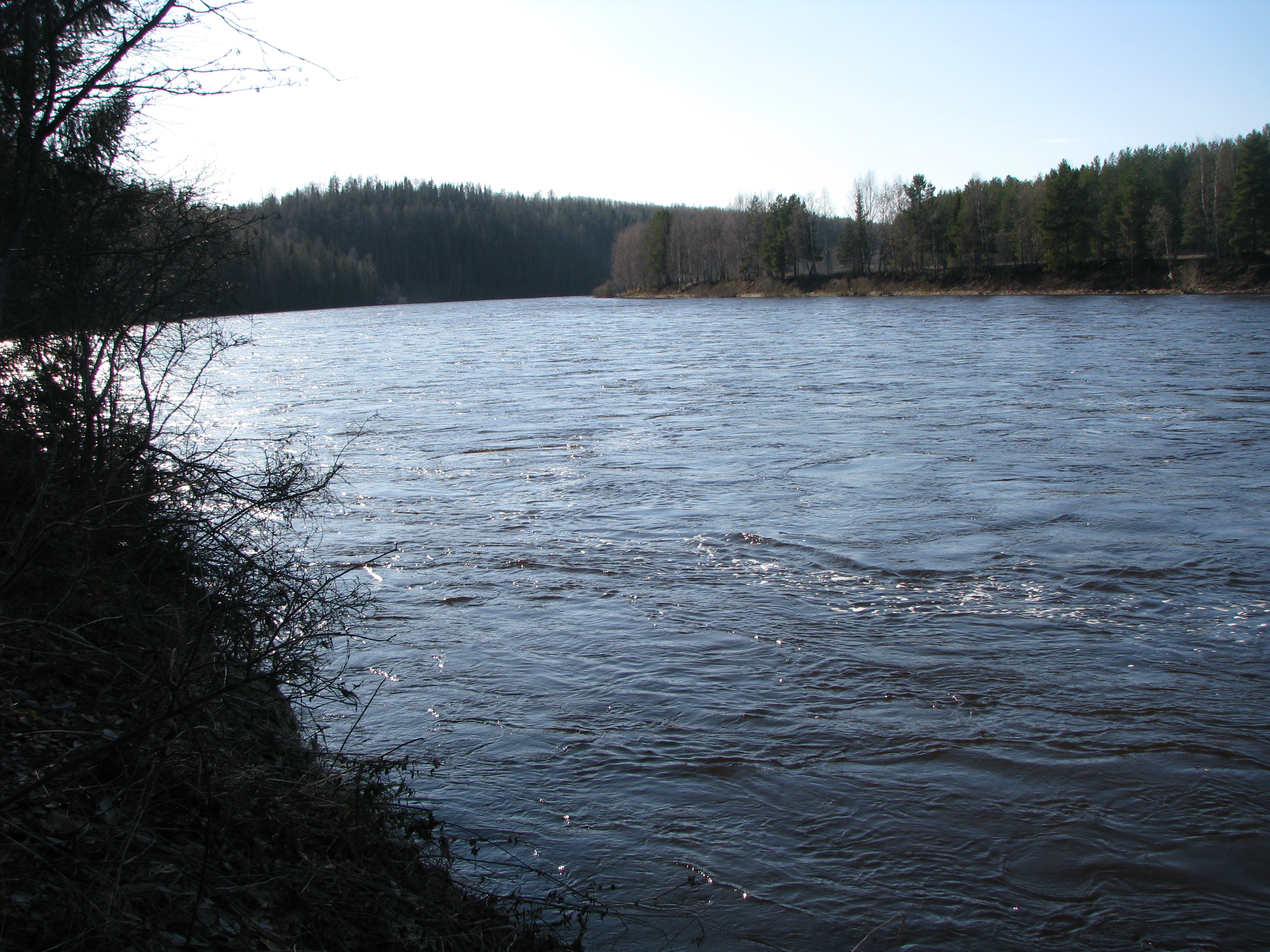 Ukhta River near Shudajag Village. Russia, Komi Republic. May 2009